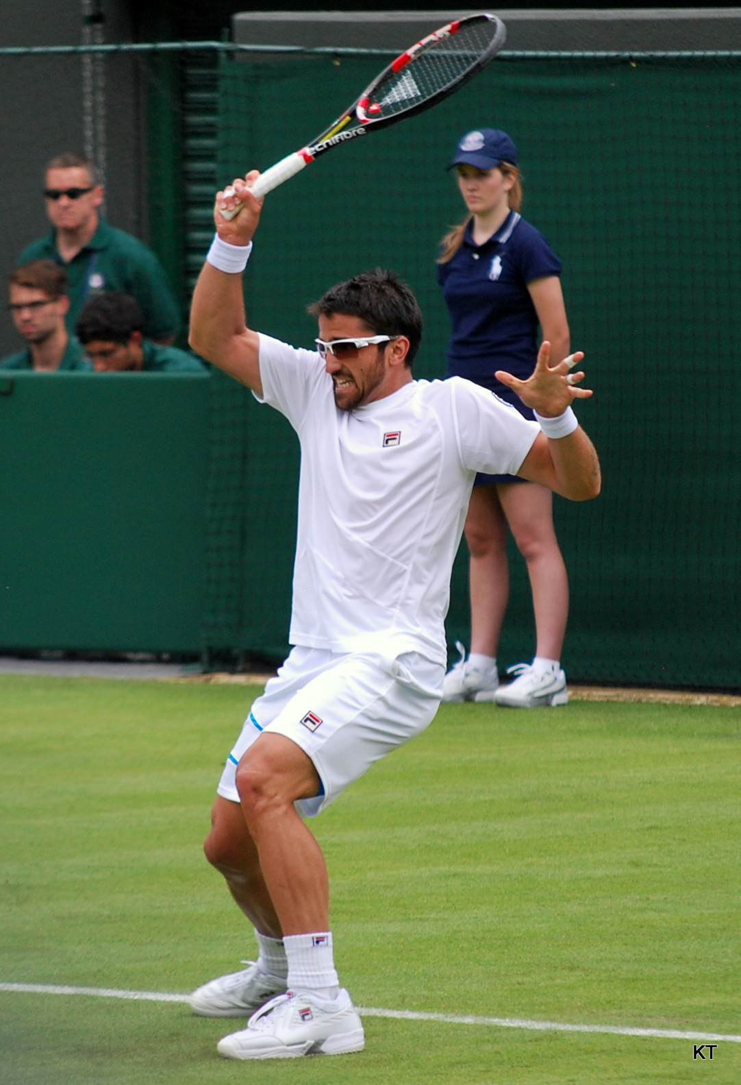 Janko Tipsarevic during his first round match with David Nalbandian, on Day 1 of Wimbledon 2012.